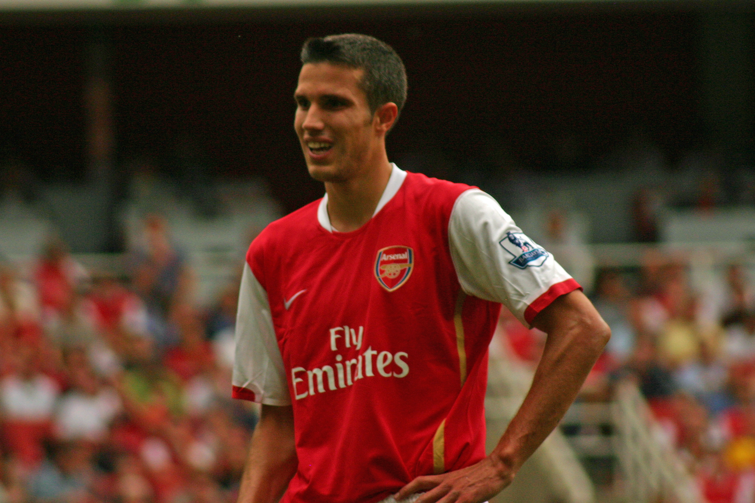 Robin van Persie of Arsenal against Fulham in August 2007.